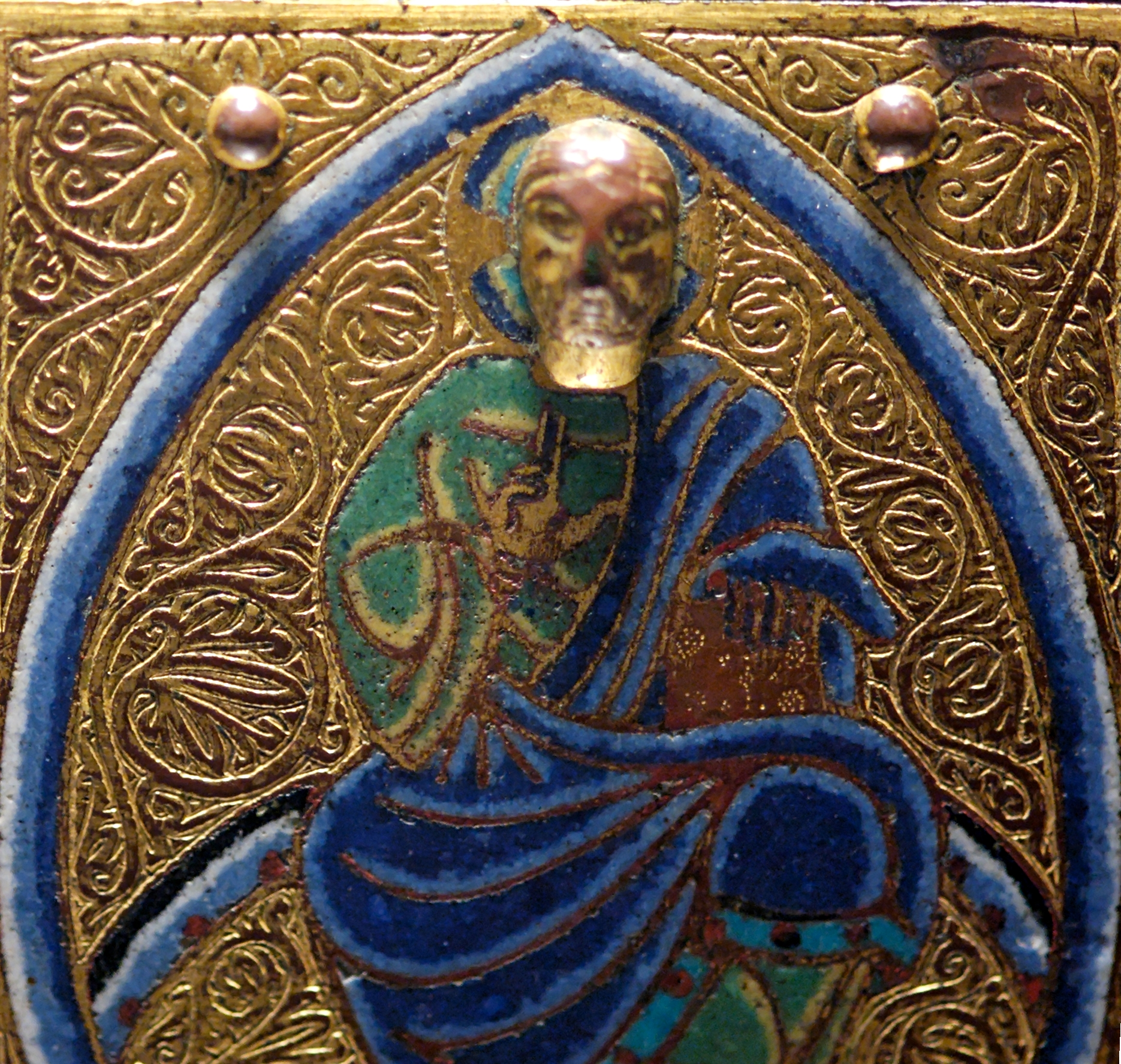 Enthroned Christ: close-up on vermicule background. Detail from a reliquary with Christ in majesty and saints. Champlevé enamel over gilt copper, Limoges (Limousin, France), late 12th century.